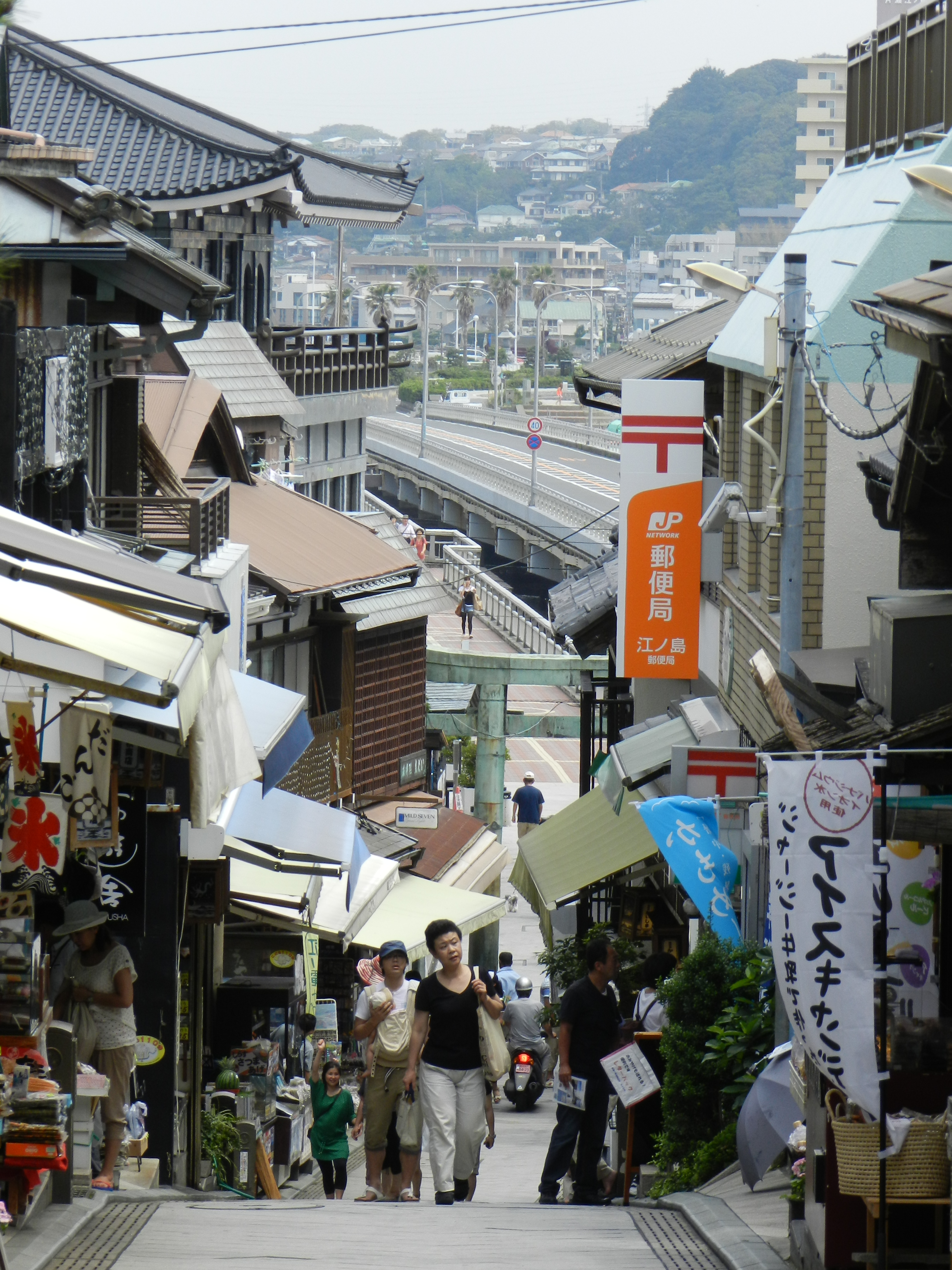 The Main Street on the Island Enoshima at the Kanagawa Prefecture, Japan